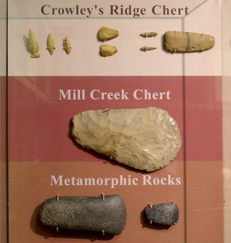 A large biface hoe made from Mill Creek chert obtained from Southern Illinois, stone tools made from Crowley Ridge flint and axes of ground metamorphic stone from the Appalachian Mountains, all found at the Parkin Archeological State Park.